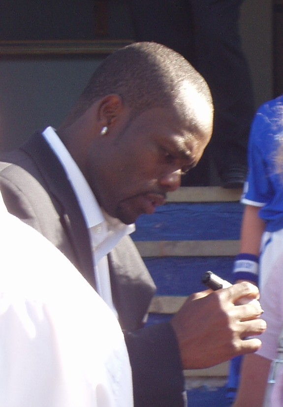 Stern John, then of Birmingham City F.C., signs autographs after the pre-season game against Osasuna